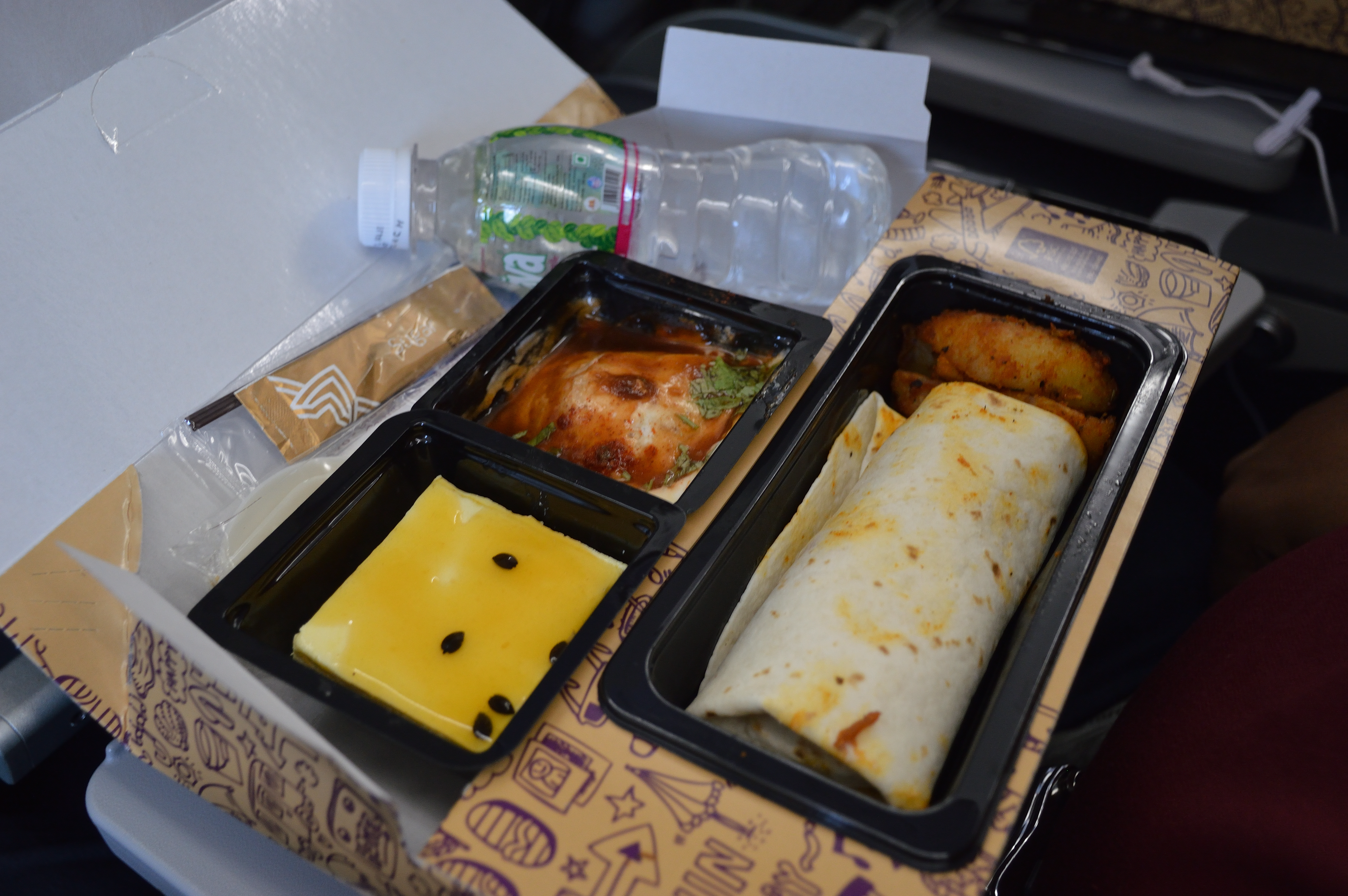 This photograph was taken at Mohali, Punjab.